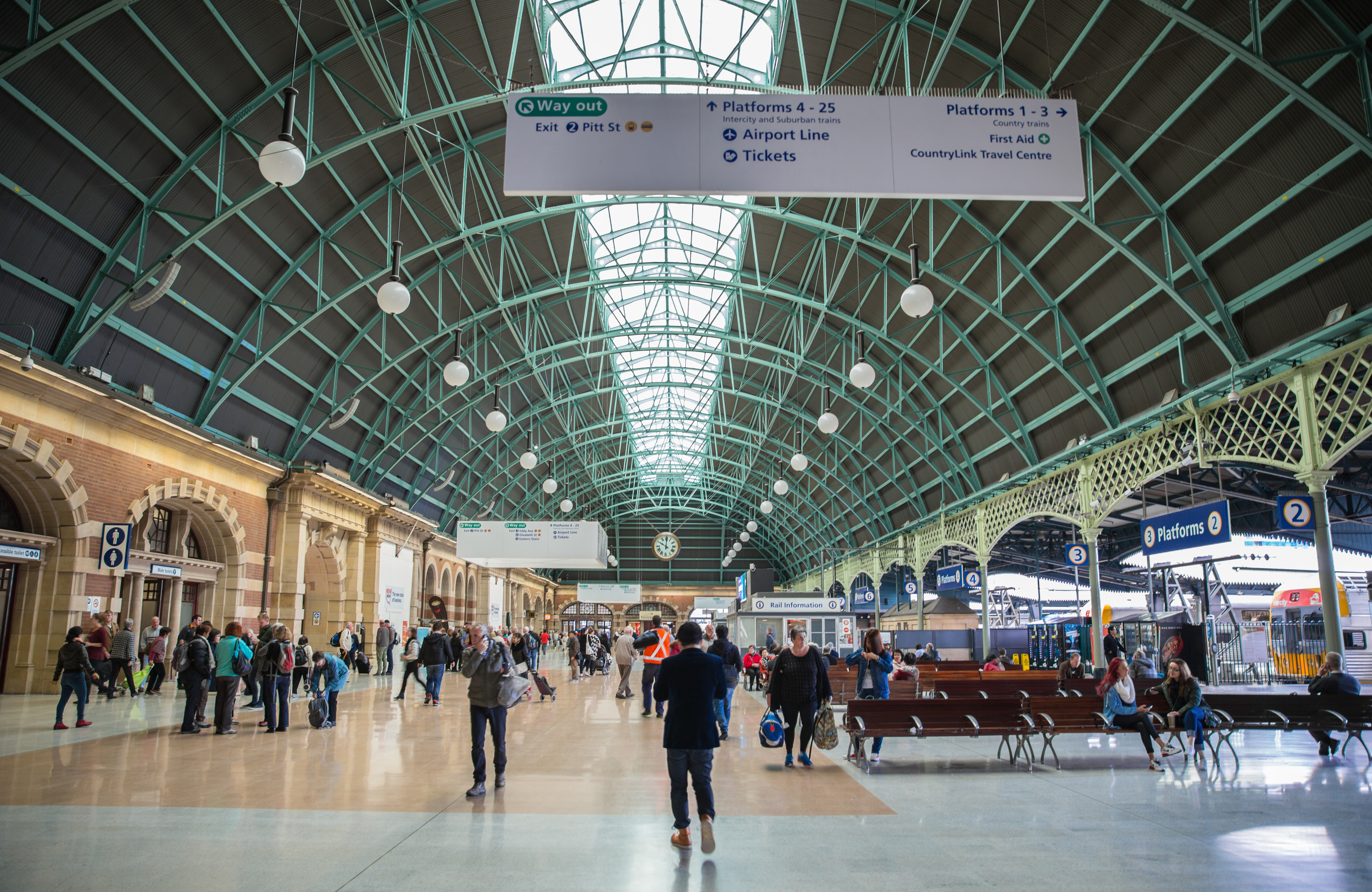 Grand Concourse at Central Station.